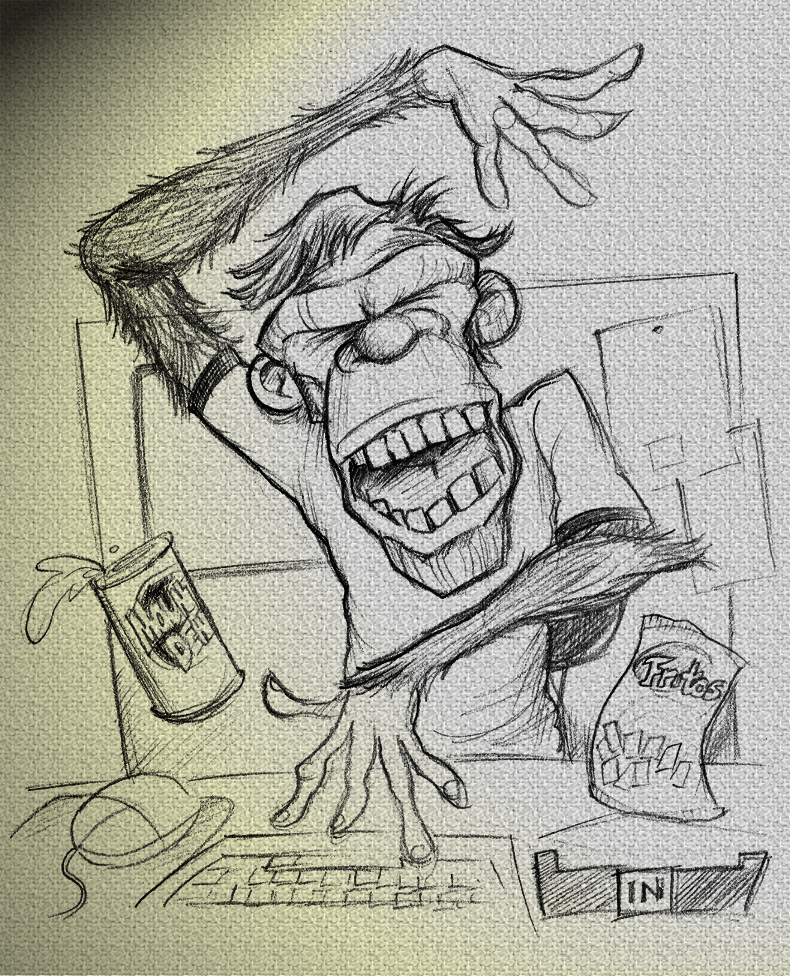 I wasn't happy with my first Code Monkey drawing, so I did this one too. UPDATE: This drawing has been Wiki'ed!